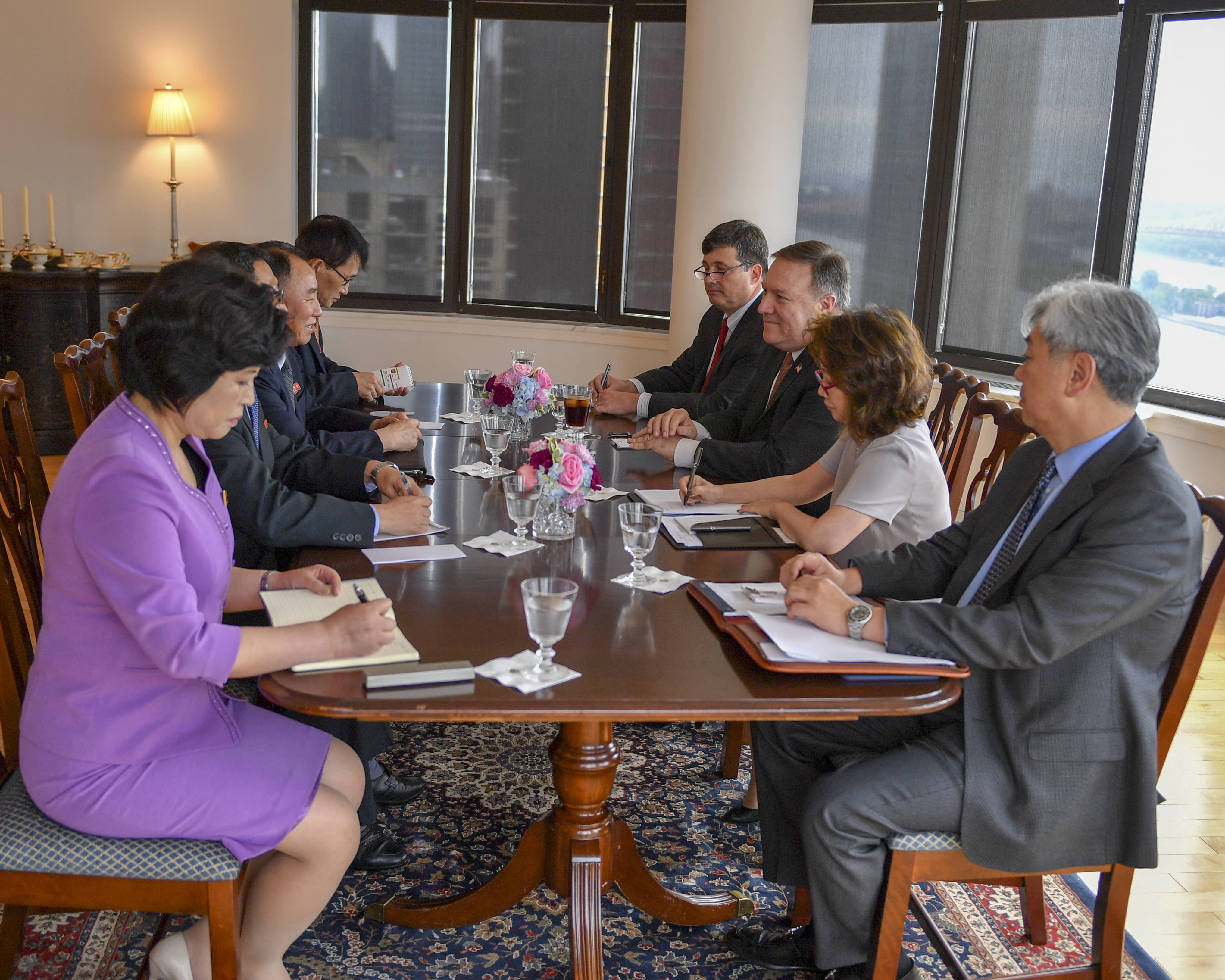 U.S. Secretary of State Mike Pompeo participates in a DPRK meeting with delegation from North Korea, led by DPRK Vice-Chairman of the Central Committee Kim Yong Chol in New York City on May 31, 2018. [State Department photo/ Public Domain]